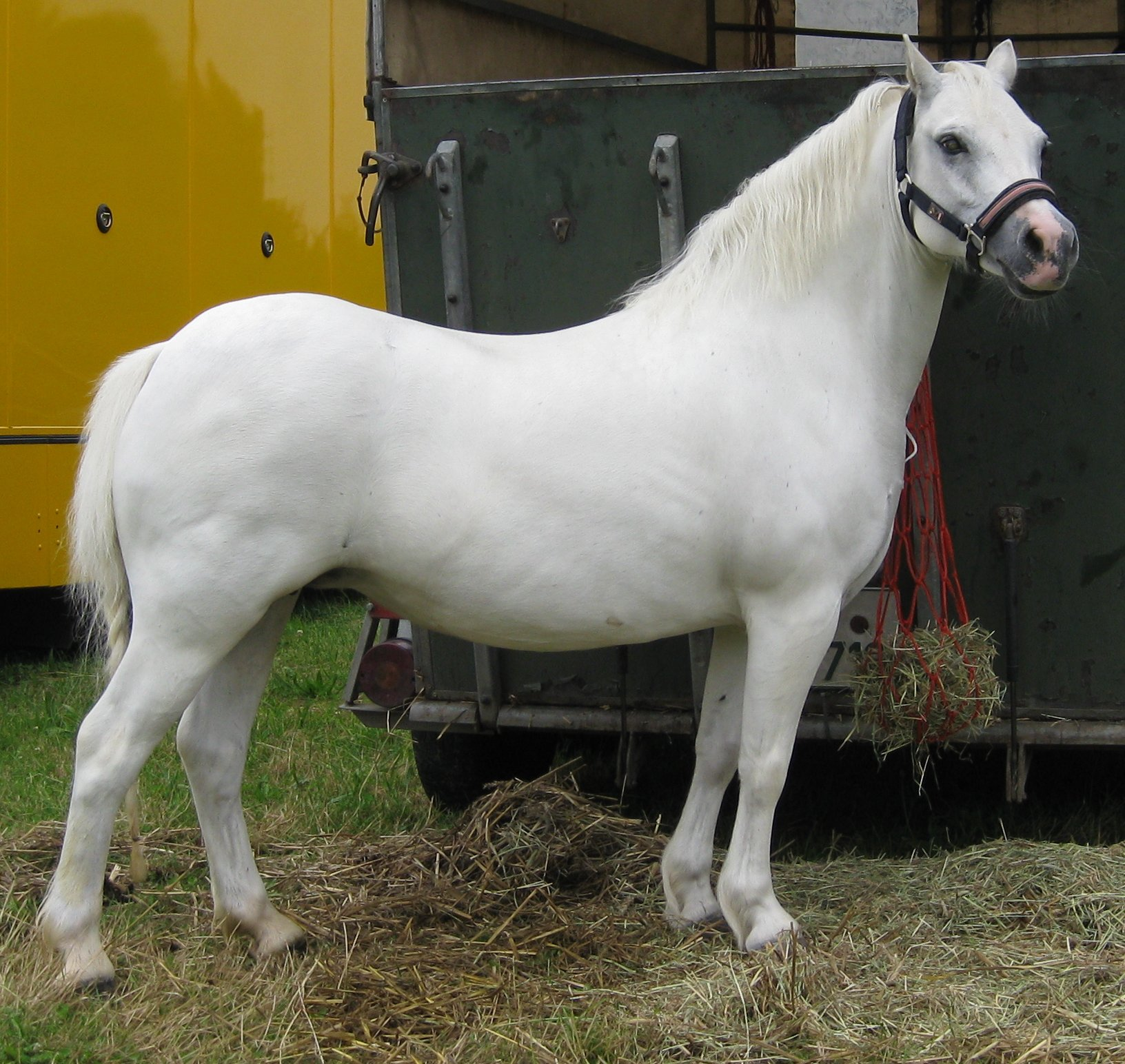 Sixteen year old Welsh Pony of section A Self made picture at Regionalschau IG-Welsh Regionalgruppe Rheinland